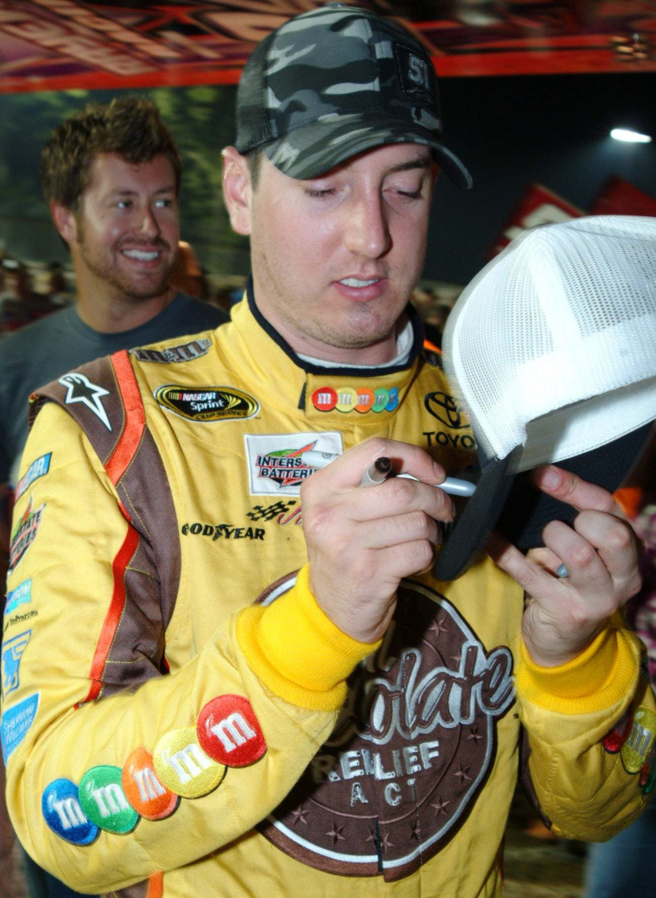 Driver Kyle Busch at the Battle at the Grove on August 5, 2009